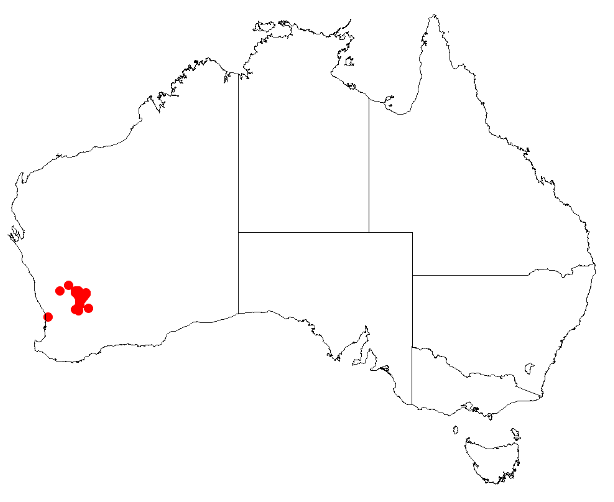 Boronia adamsiana Occurrence data from Australasian Virtual Herbarium downloaded 8 April 2019 using DOI